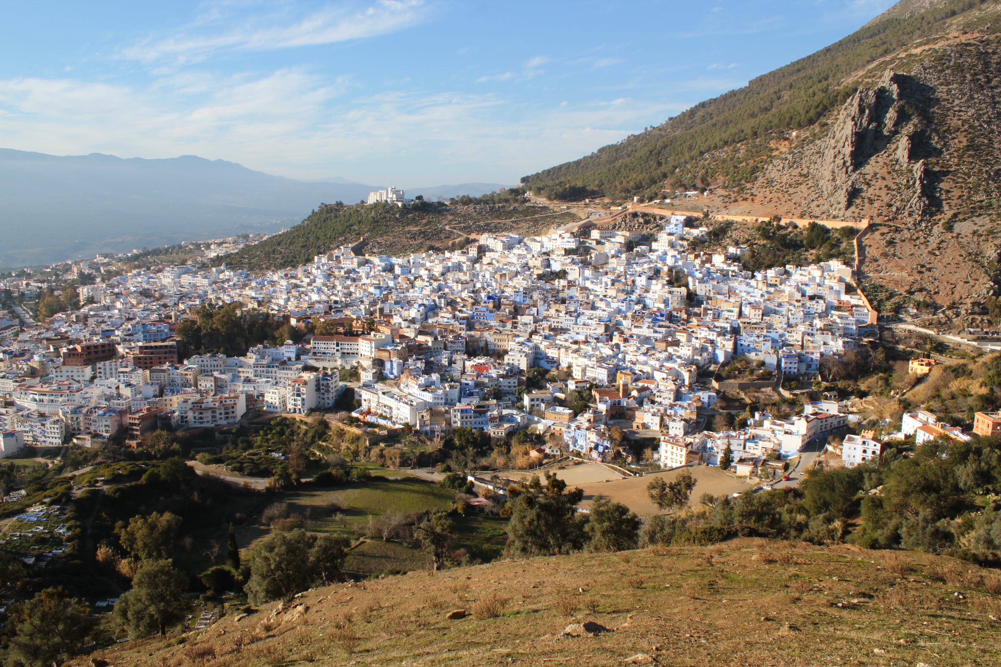 Seen from the hill outside the city's eastern gate.